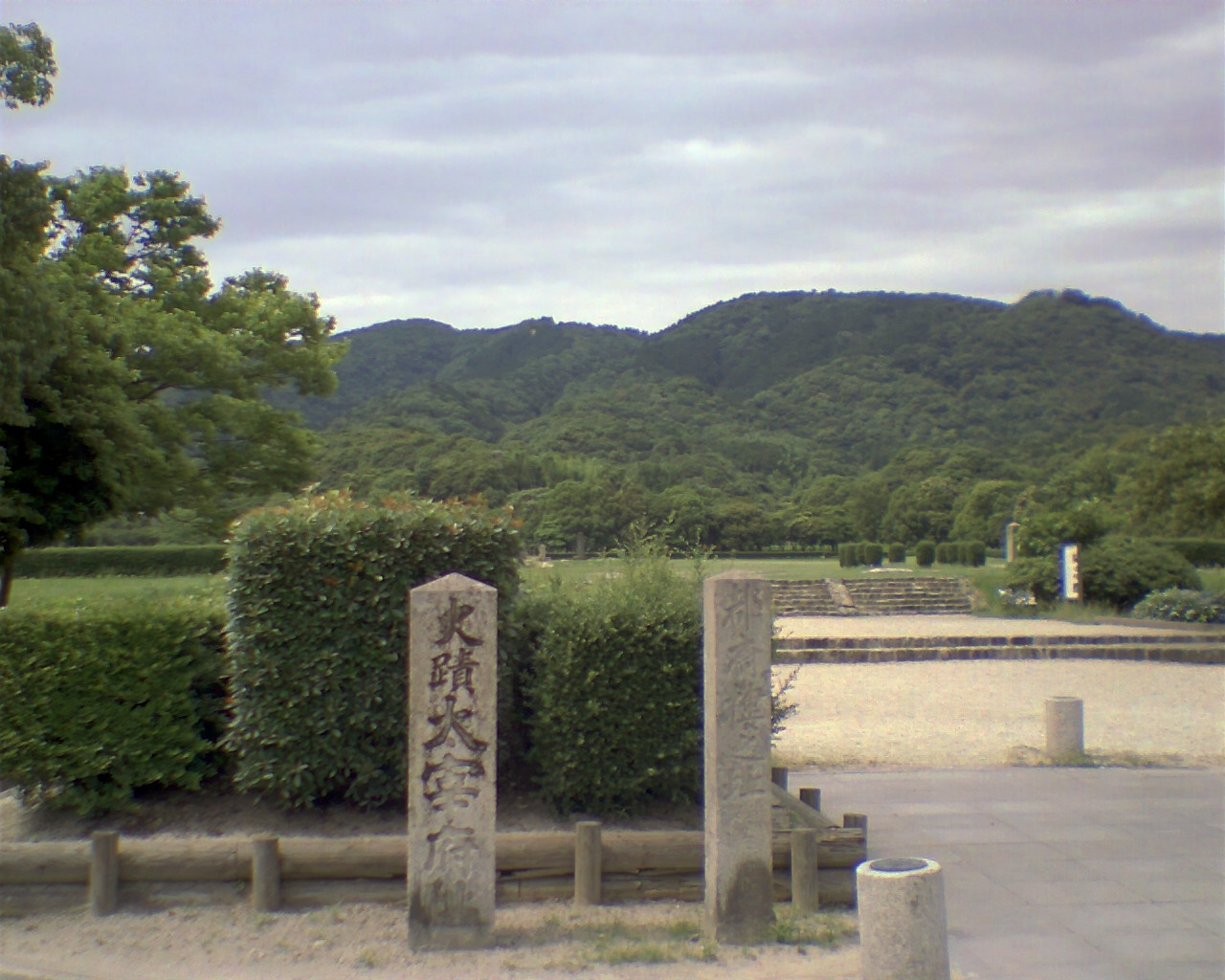 This photograph is an ancient ruin that is called Dazaifu ruin (ja : 大宰府政庁跡) or Tofuro ruin (ja : 都府楼跡) which in the Dazaifu city, Fukuoka prefecture, Japan.